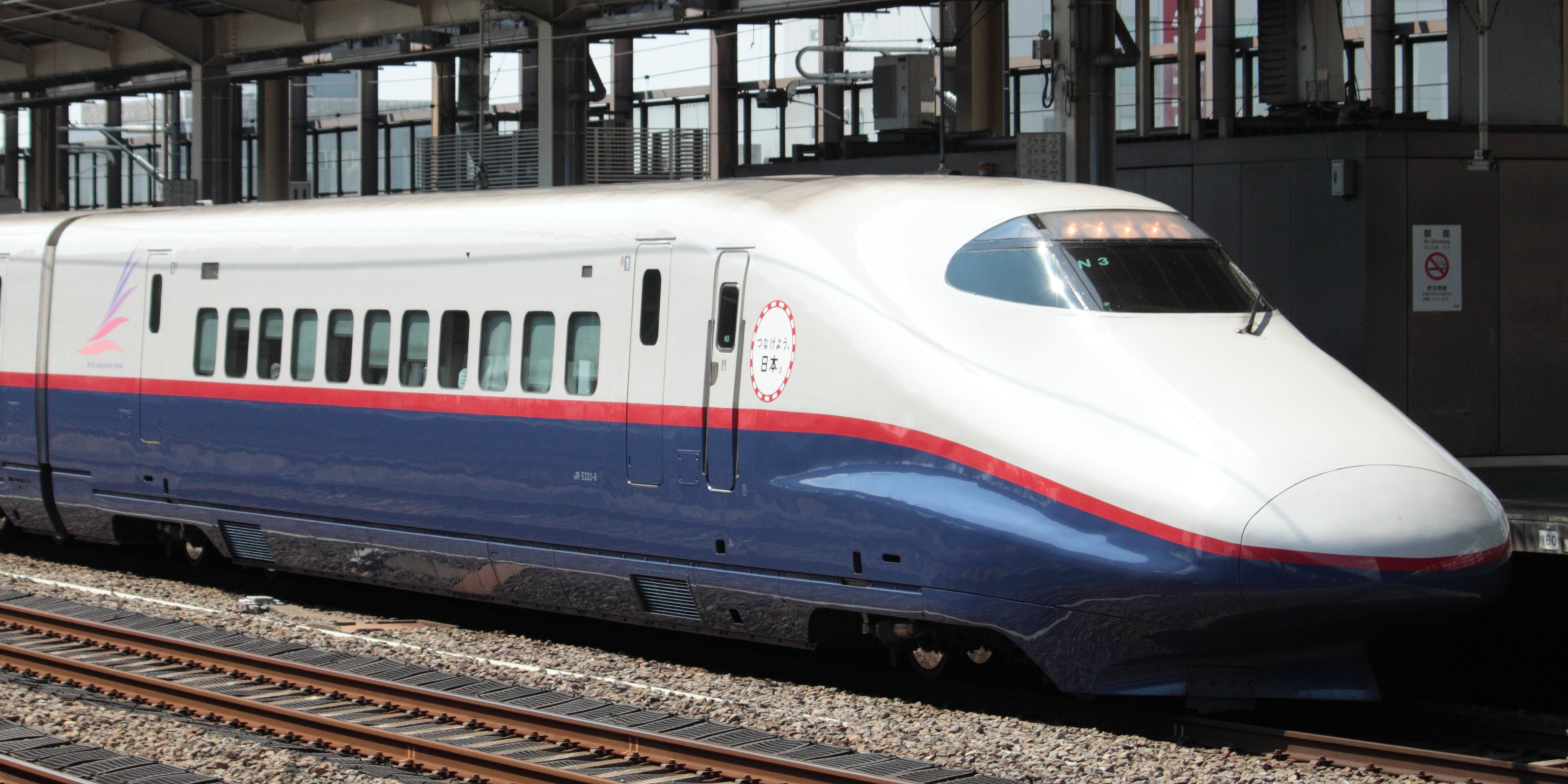 JR East E2-0 series shinkansen car E223-9 (car 1 of set N3) at Kumagaya Station